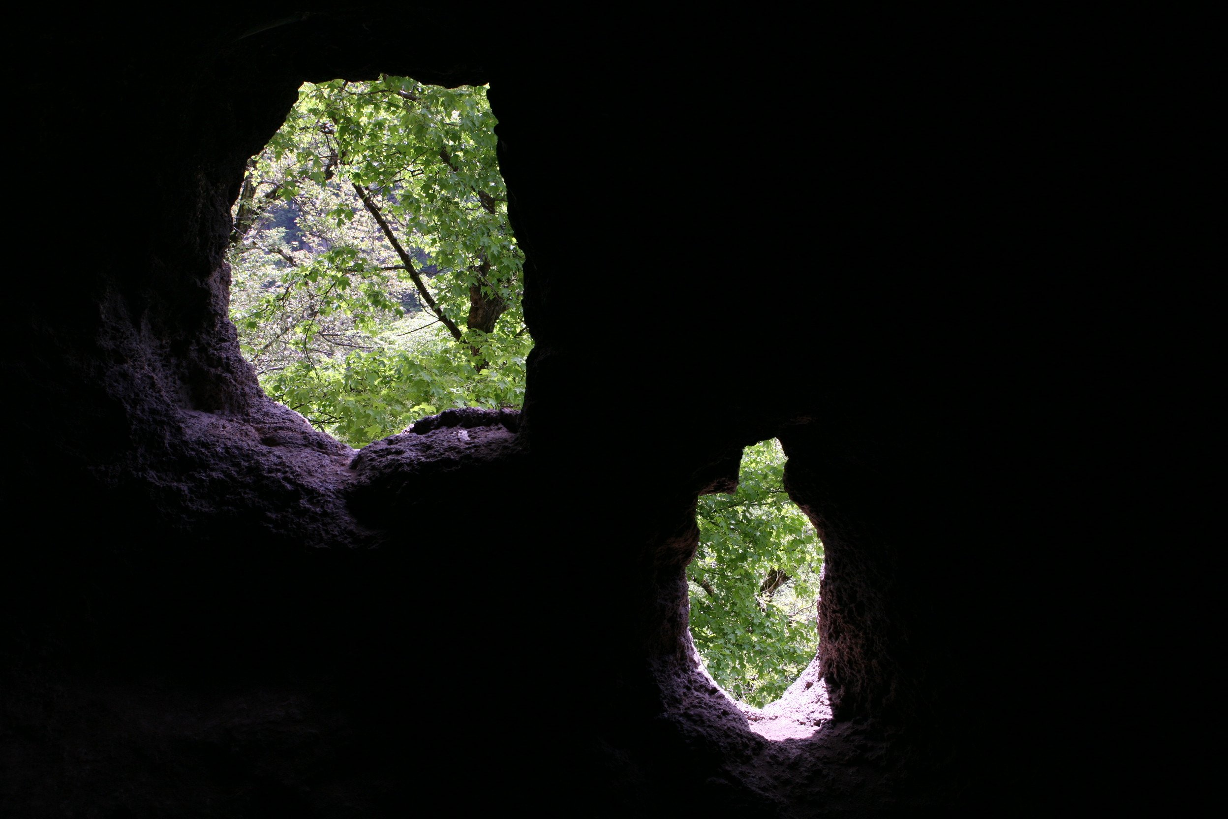 The Cave in the Gorge of the Khachaghbyur River